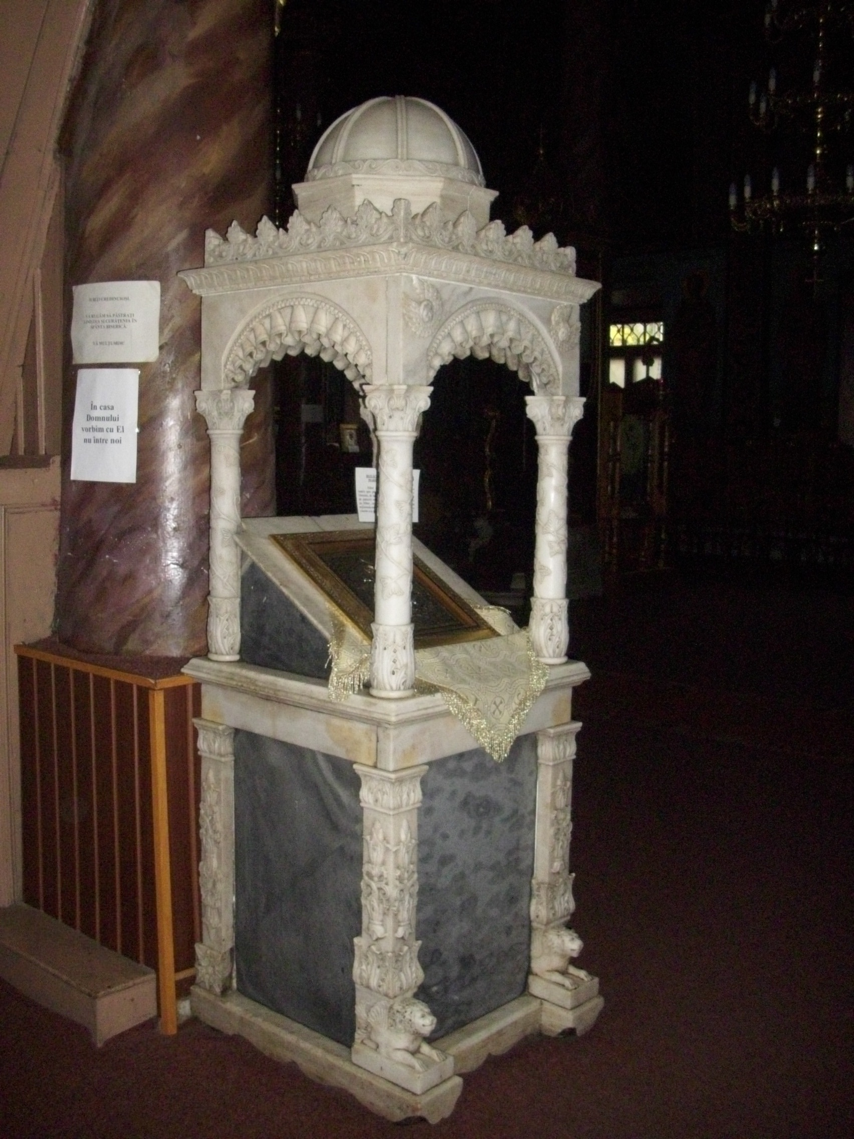 Tulcea - the Bulgarian church "Saint George" - a marble edicula